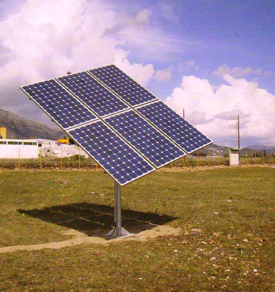 Solar cell panel